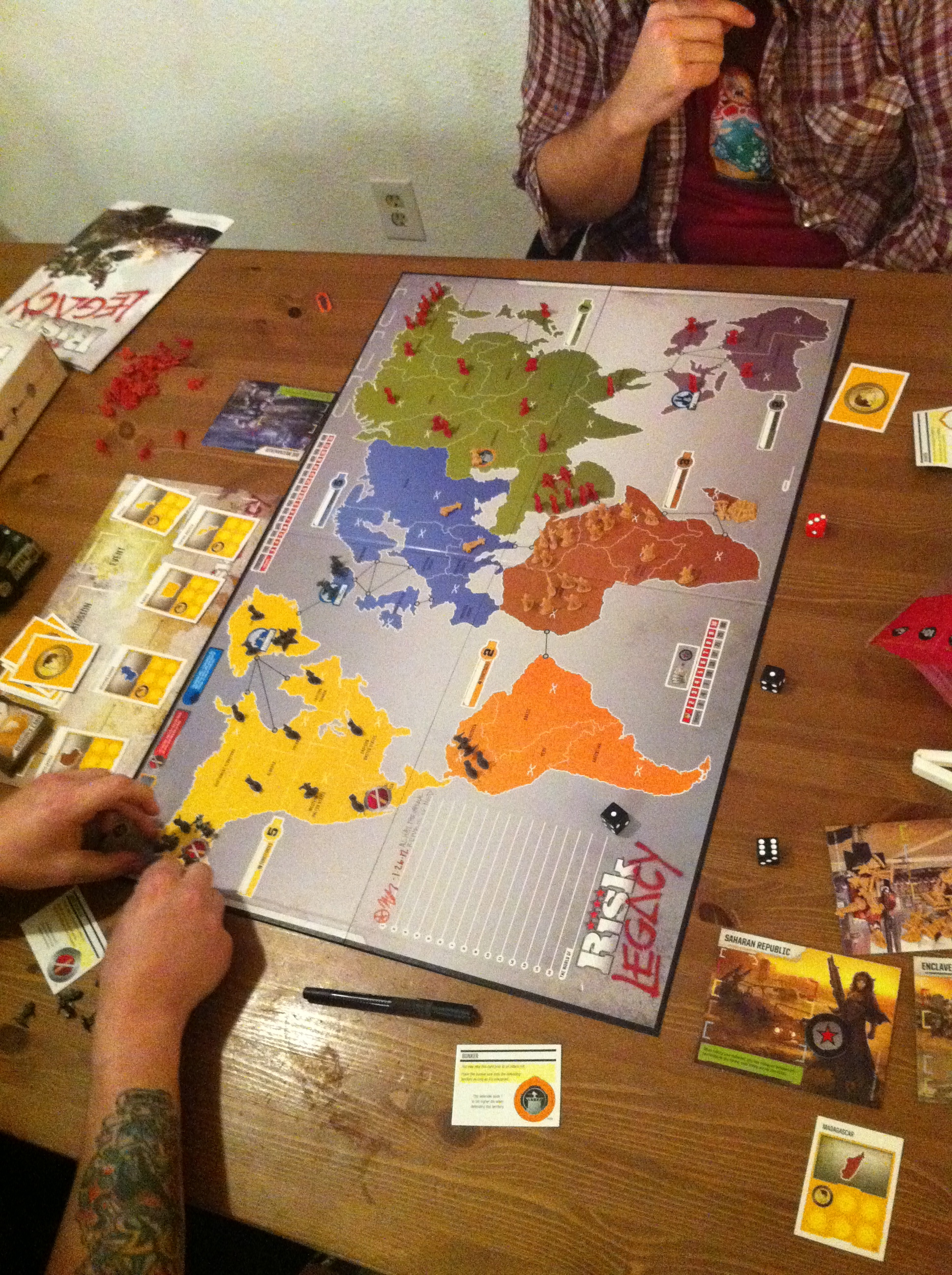 Playing a version of the board game Risk.